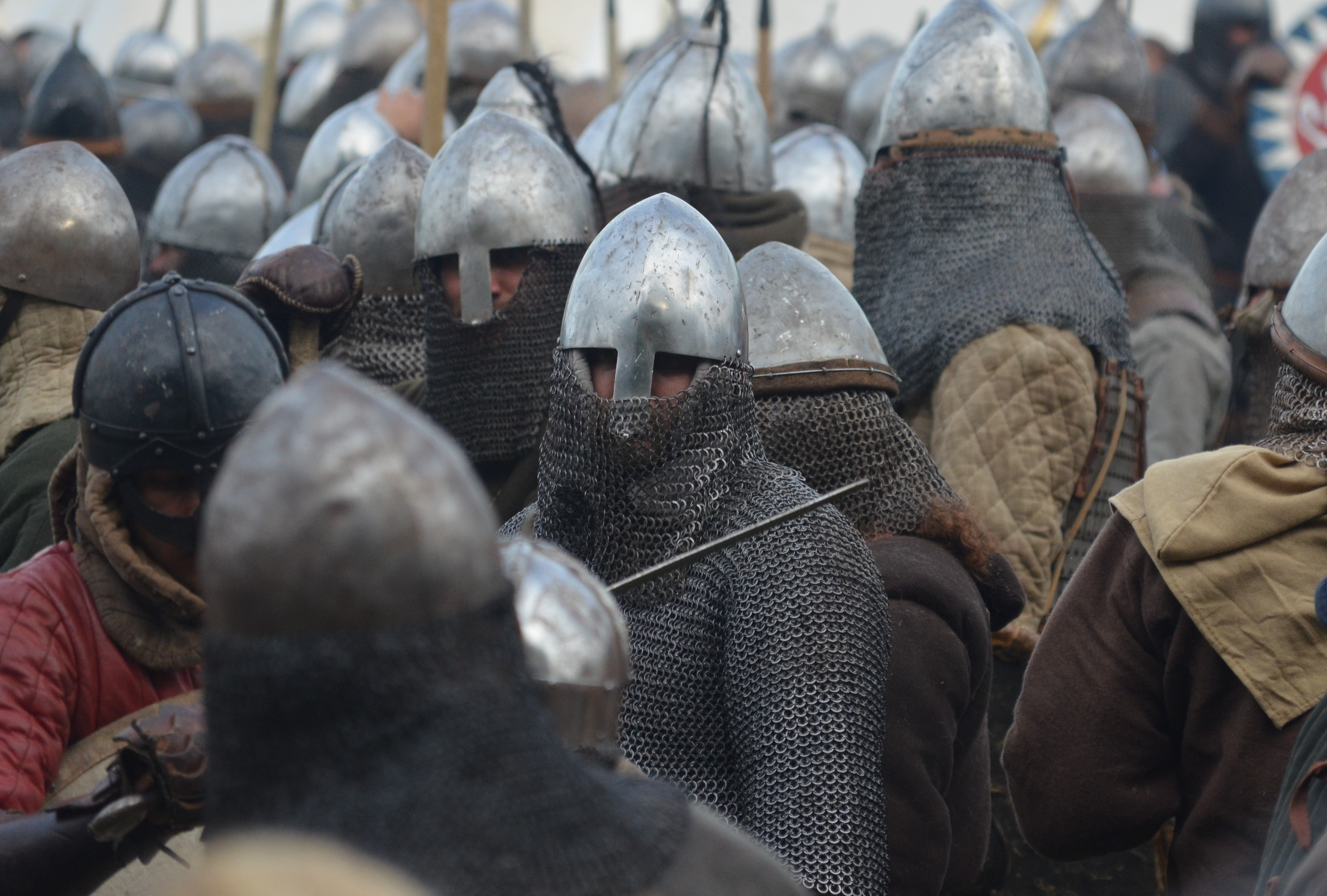 Gefecht bei Trcziencza